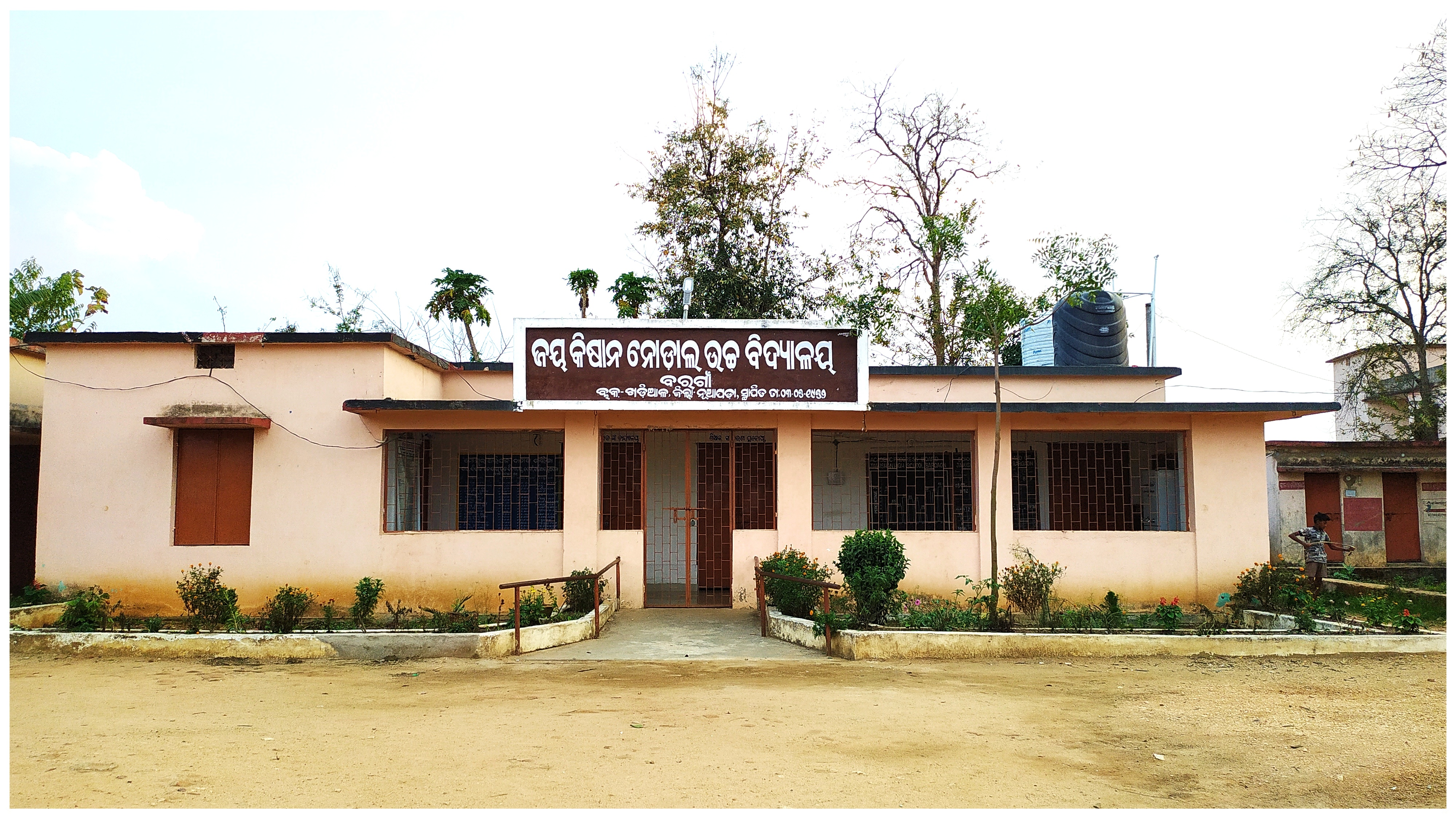 Jai Kishan High School, Bargaon It was established in 1972 by the people of Bargaon. Nowadays the school is considered as a nodal school in the district. It provides education to both boys and girls from class 6th to class 10th.